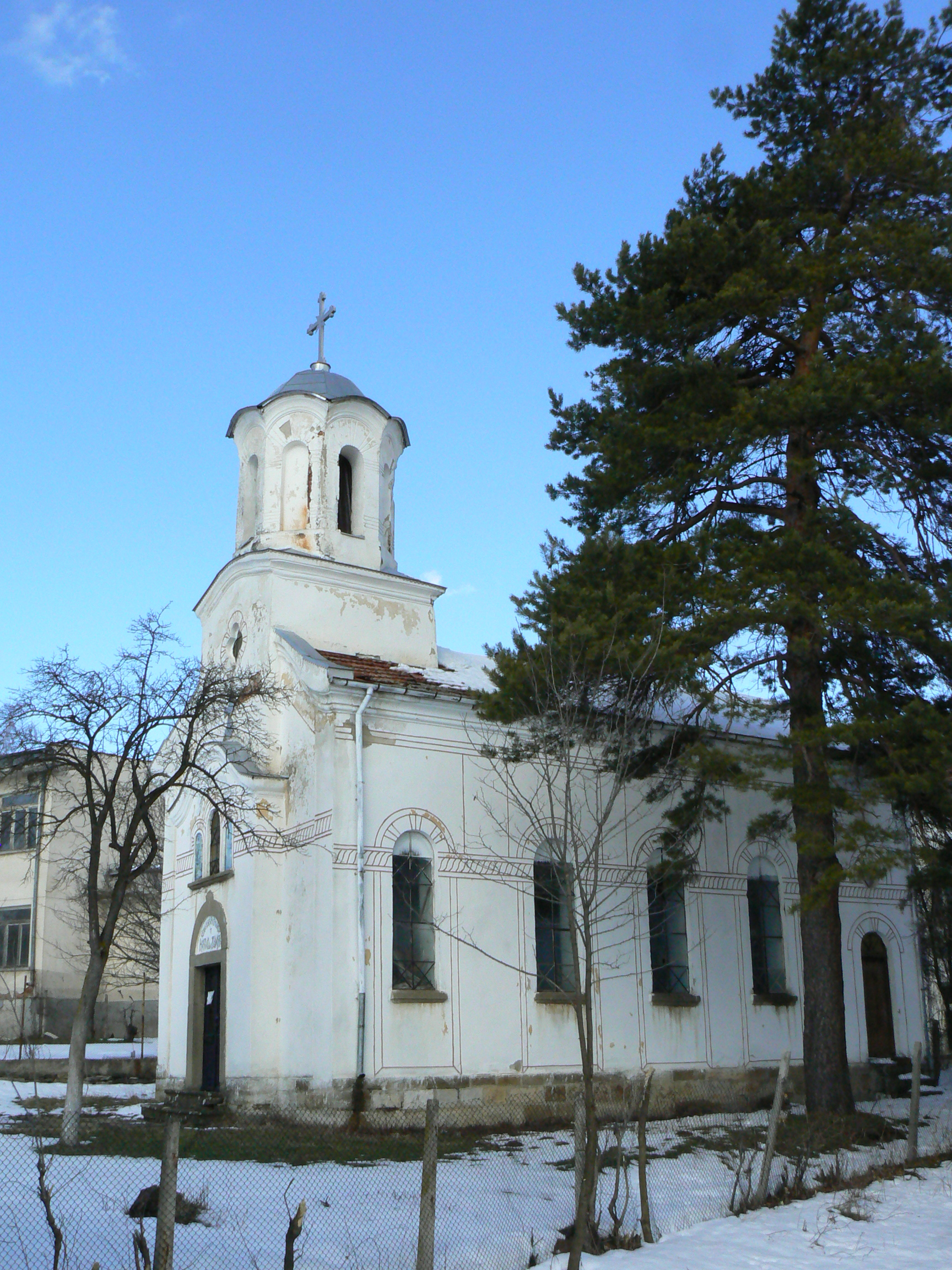 Church "Kozma and Damyan" in village Oreshene, Lovech District, Bulgaria